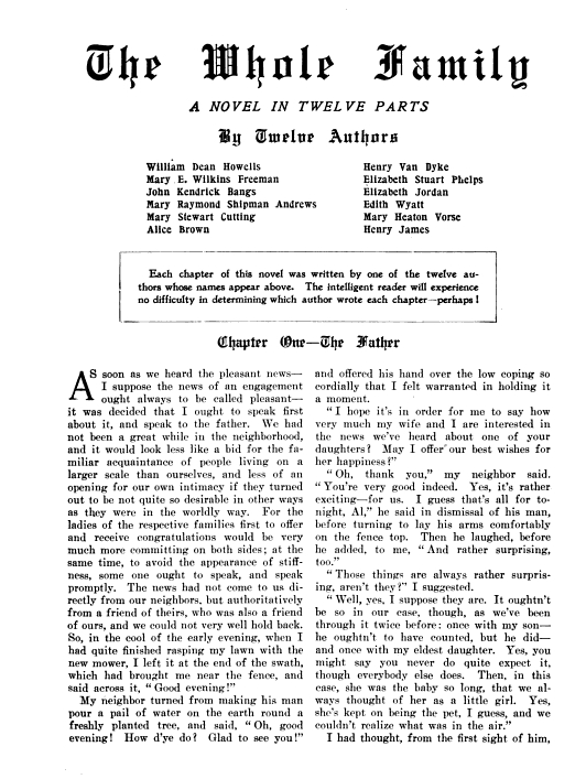 Page 1161 from Harper's Bazar for December 1907, featuring the first chapter of The Whole Family, a collaborative novel by 12 authors. This inaugural chapter is by William Dean Howells. The issue and the project was edited by Elizabeth Jordan.